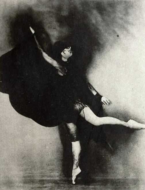 Dancer Ruth Page, on page 15 of the April 1923 Shadowland.